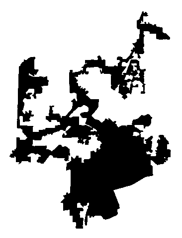 This image of the boundaries of Texas 30th Congressional District was published in the opinion of the Court.